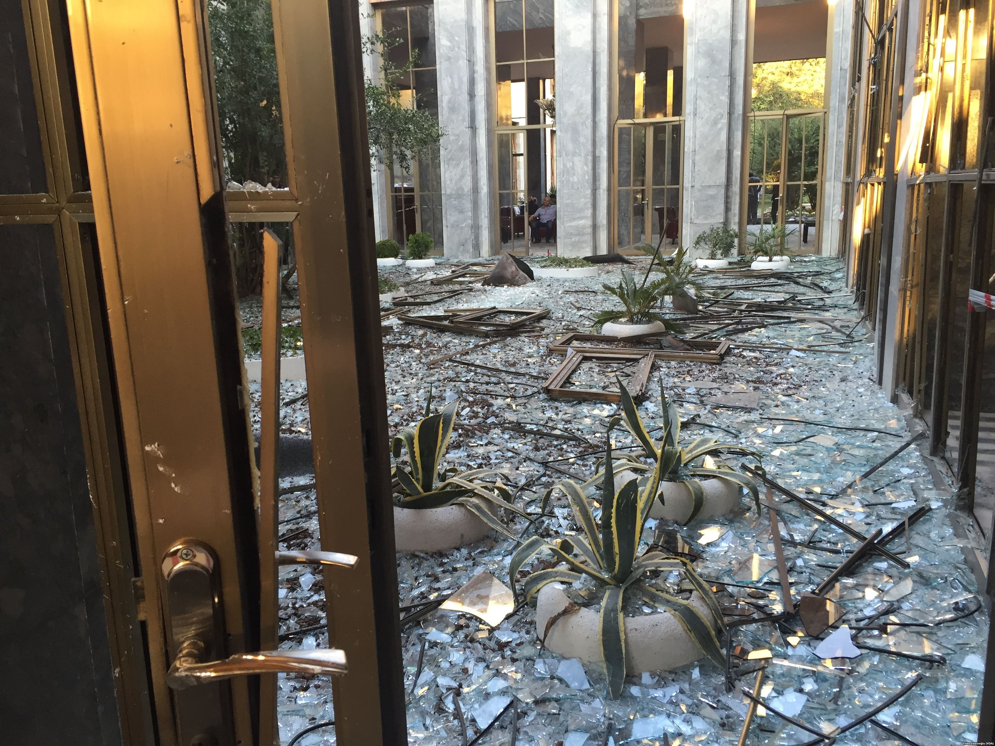 Turkish Grand National Assembly that were destroyed during the failed coup attempt in Ankara, Turkey.